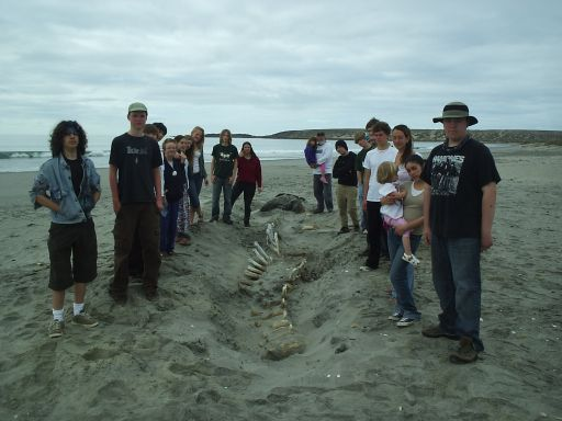 I am the owner/taker/creator of this picture. I hold complete ownership of photo and hereby am giving Wikipedia the right of its use. Baja Special Program, 2006